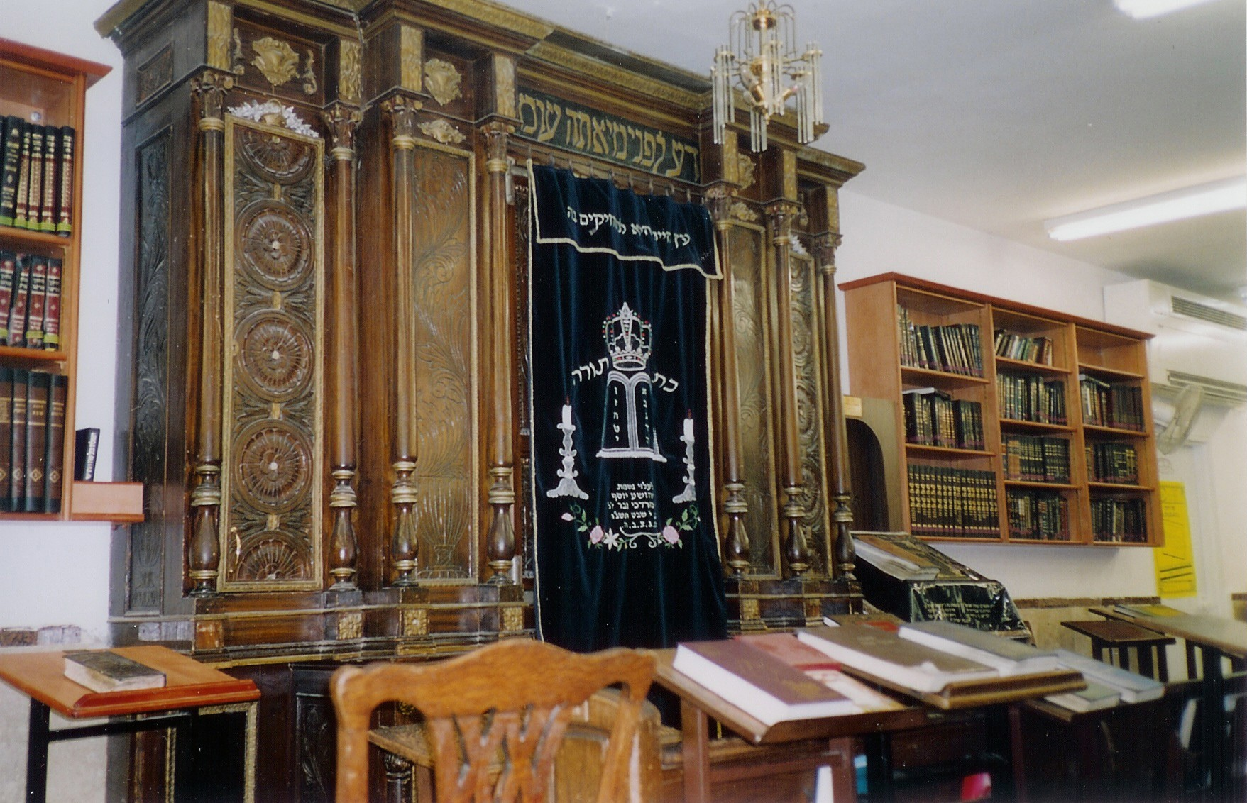 Photo of aron kodesh covered by parokhet in a Jerusalem neighborhood synagogue. Photo by Yoninah 01:41, 21 March 2006 (UTC), taken on March 14, 2006.